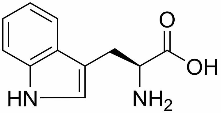 2D-structure of tryptophan (Trp; W; Tryptan)